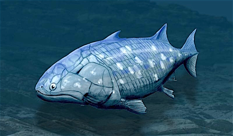 Guiyu oneiros, late Silurian of China. digital.